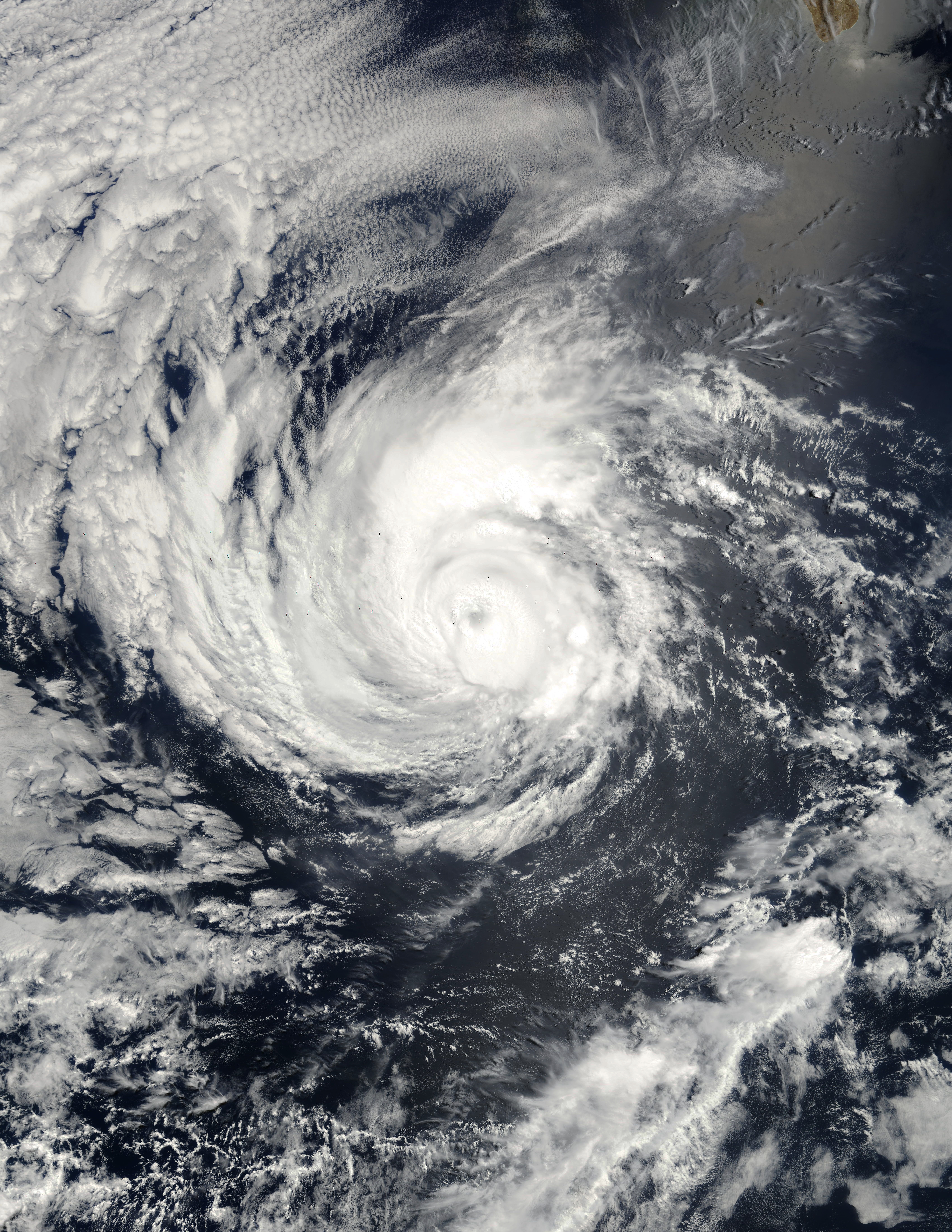 As of Thursday morning, May 30, 2002, Hurricane Alma was a Category 2 hurricane, with sustained winds up to 110 miles per hour and gusts up to 135 miles per hour. Located in the eastern Pacific Ocean several hundred miles west of central Mexico and south of Baja California, the storm is tracking northward at about 9 miles per hour, and is forecast to weaken as it moves north over cooler ocean waters. Alma is the eastern Pacific's first named storm of the season. This image of Hurricane Alma was captured by the Moderate Resolution Imaging Spectroradiometer (MODIS) on the Terra satellite on Wednesday, May 29, 2002.